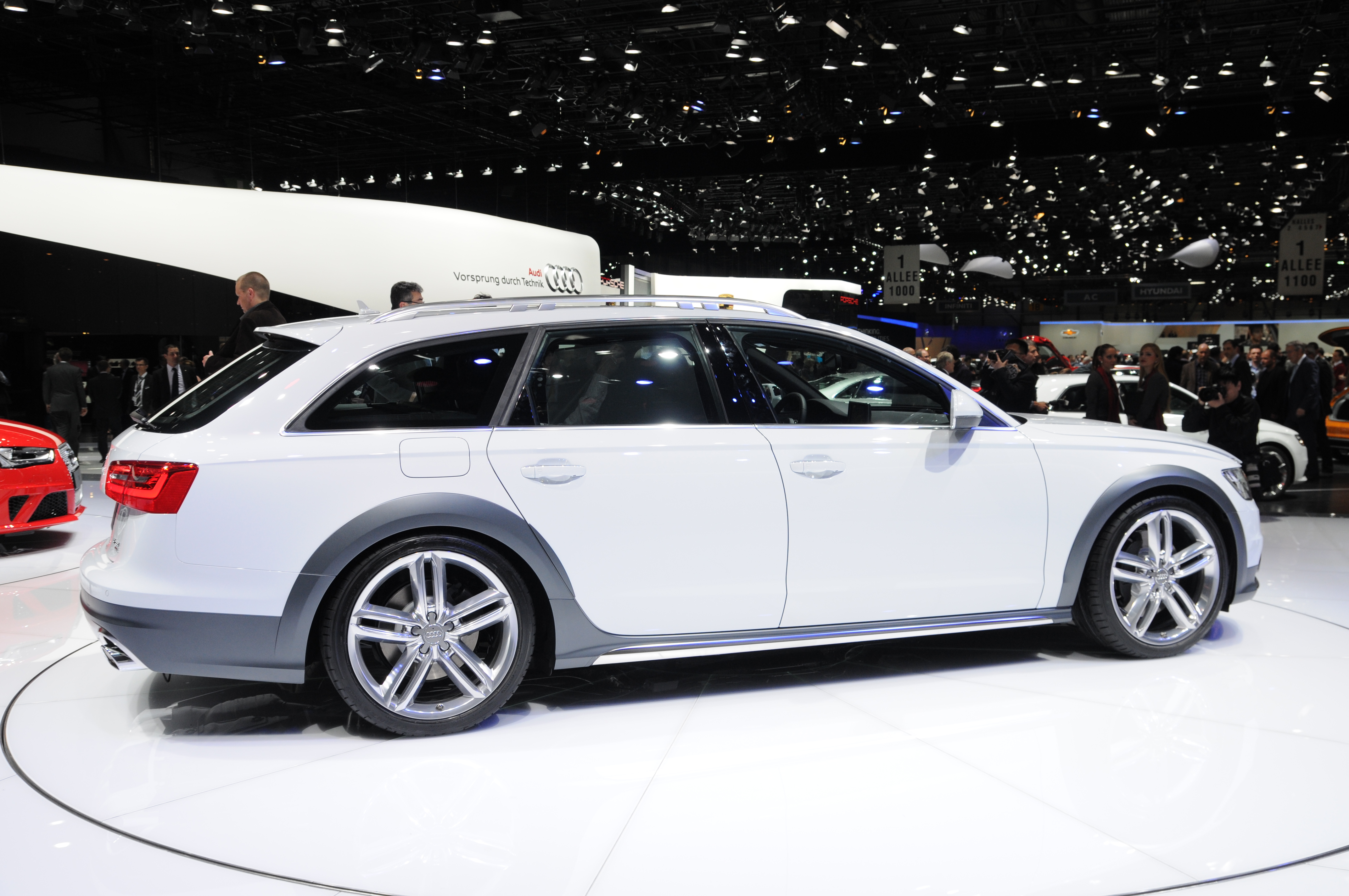 Geneva Motor Show 2012 (photos taken on the second press day)